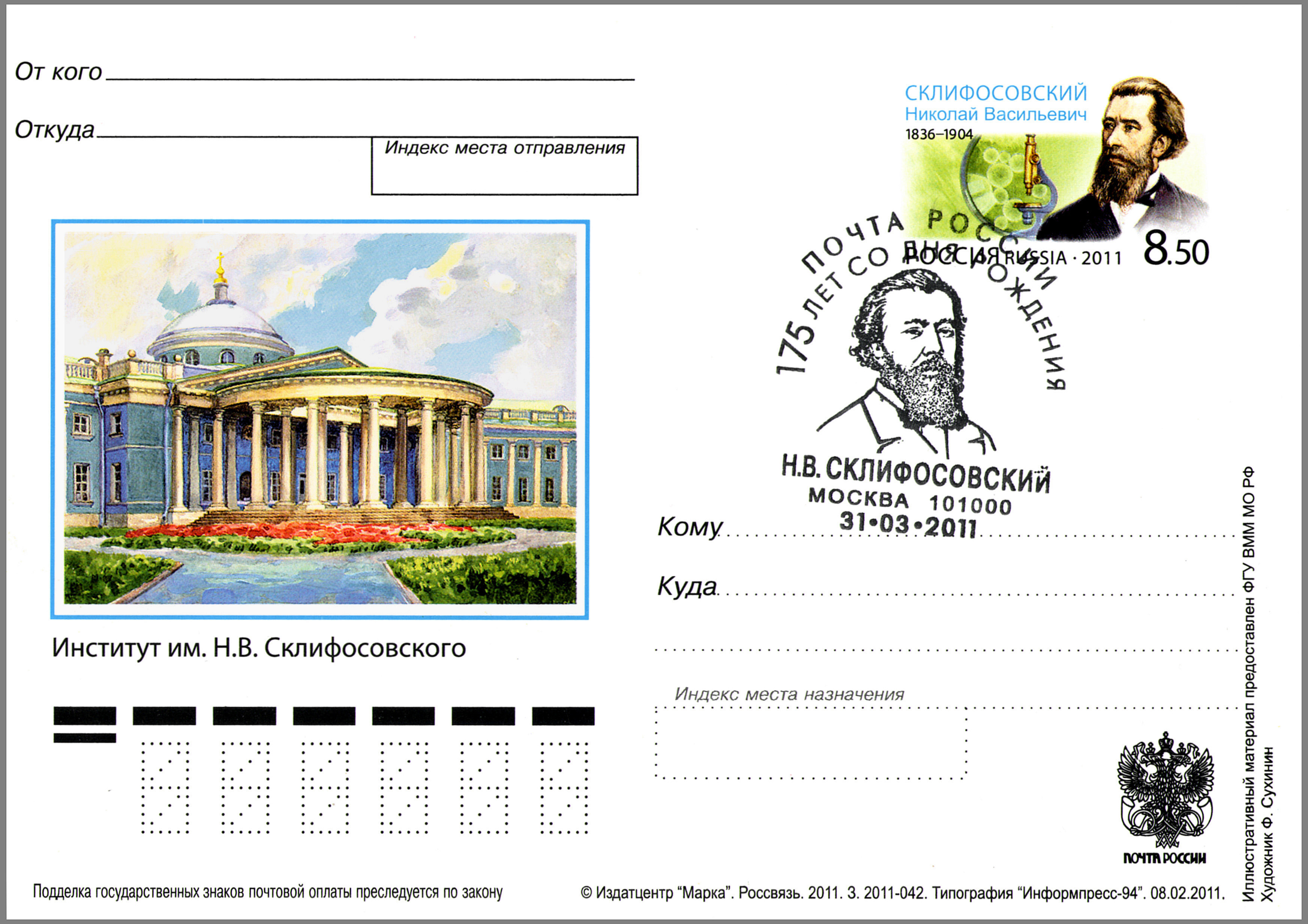 175th birth anniversary of the Russian surgeon and physiologist Nikolay Sklifosovsky (1836—1904). The postal stationery card with the imprinted commemorative stamp, Russia, 31 March 2011, PTC Marka Catalogue No 219-окр/11, Michel No PSo209. Coated paper. Offset printing. Size of the postal card: 105×148 mm. Print run: 10,700. The commemorative stamp (7.70 rubles): the portrait of Nikolay Sklifosovsky. The illustration: the main building of the Sklifosovsky Research Institute of Emergency Ambulance in Moscow (the former Sheremetev Hospitium).